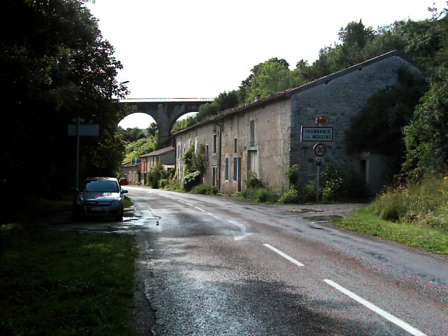 Entrance of village coming from Neufchateau